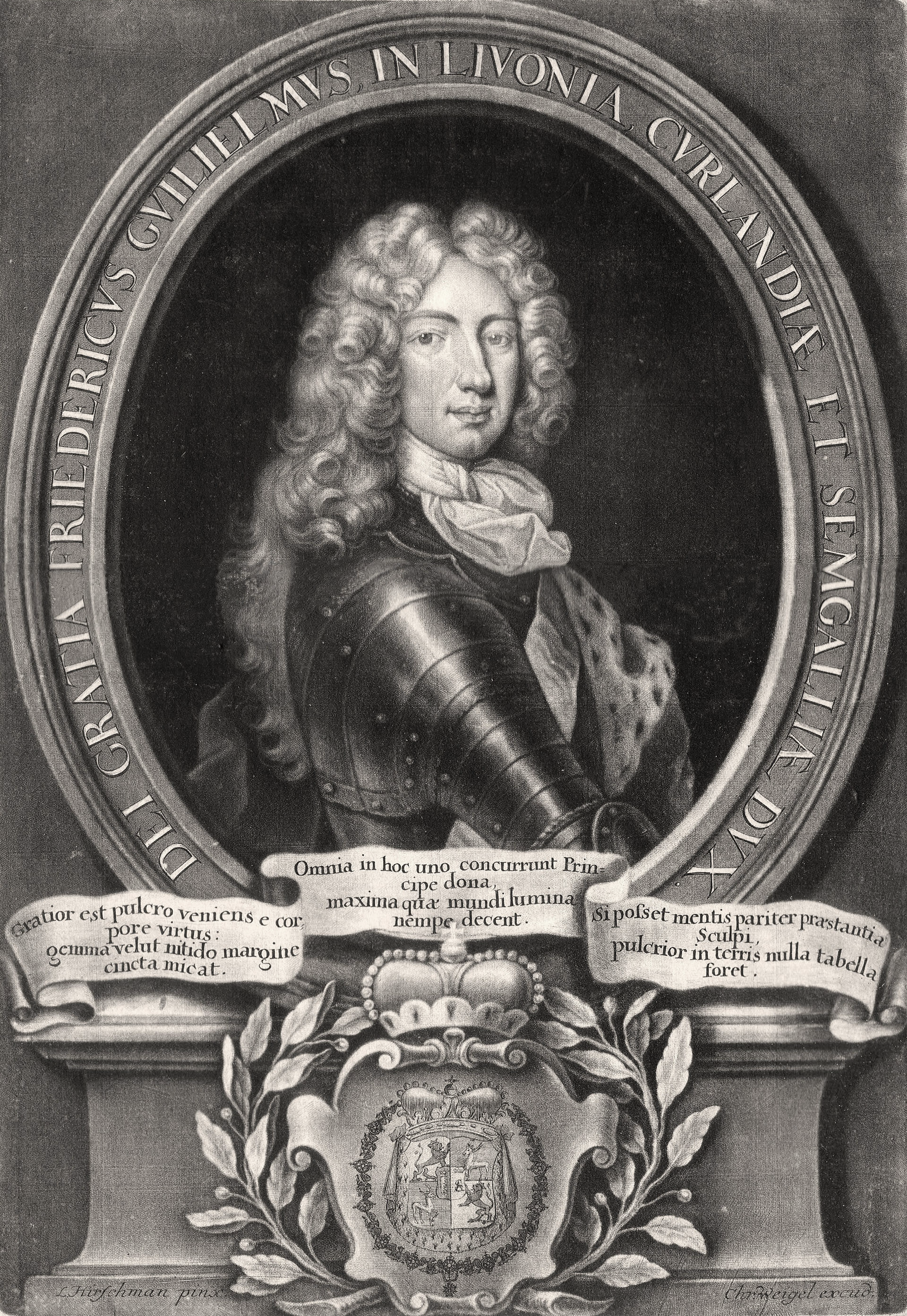 Duke Friedrich Wilhelm of Courland. K. Weygel’s aquatint after L. Hirschmann’s painting. Early 18th century